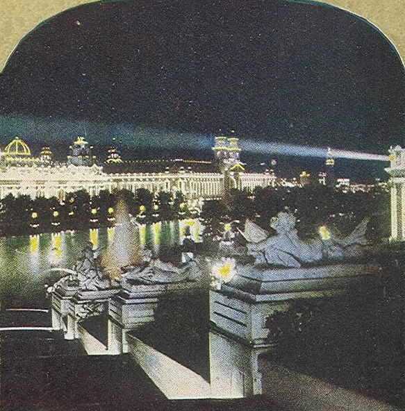 "Electricity Building, World's Fair, St. Louis." stereoscope card (one panel only)